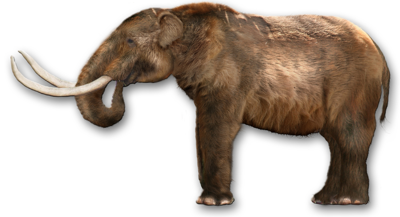 Mastodon Mammut americanum created in Adobe Photoshop.